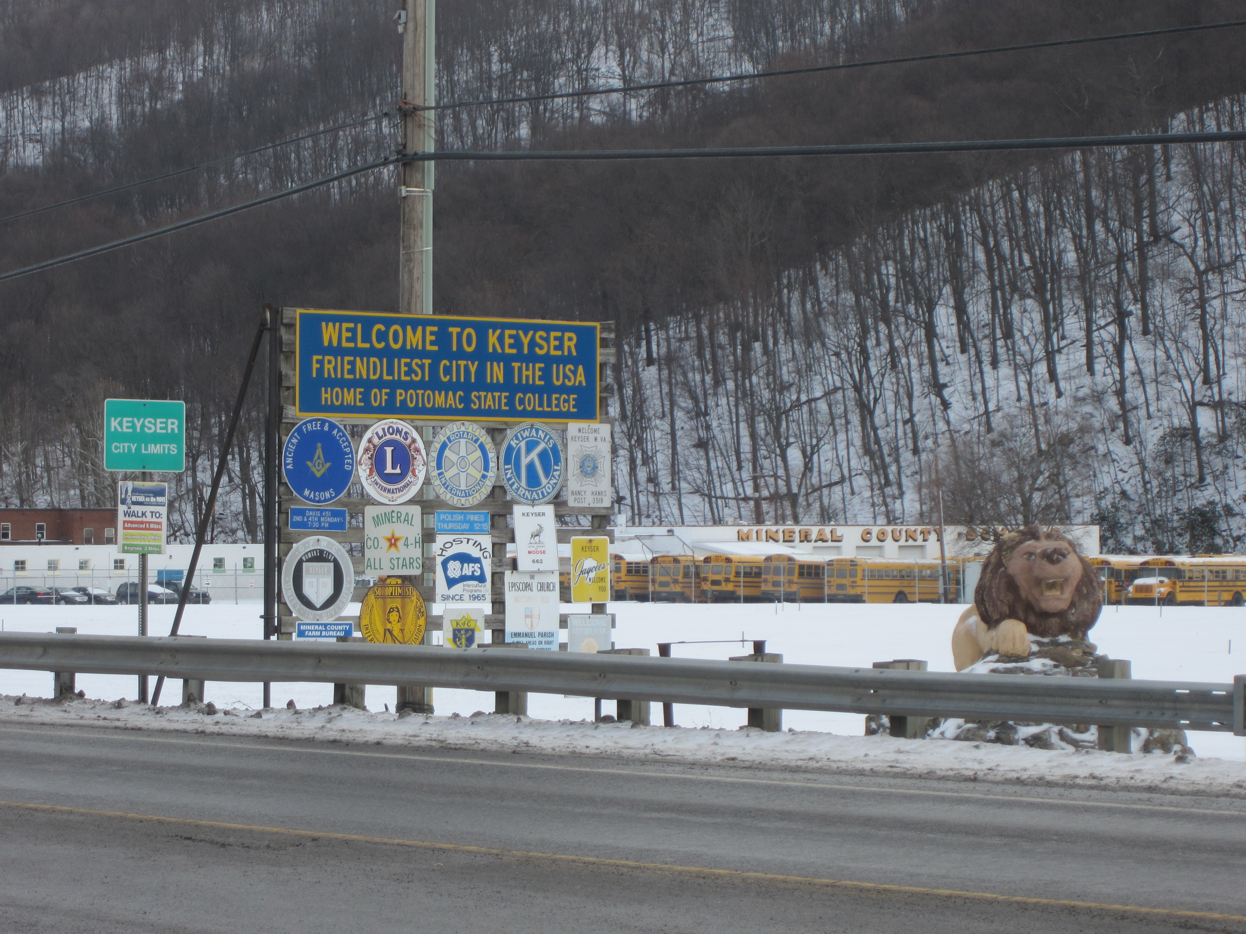 Welcome sign January 2014